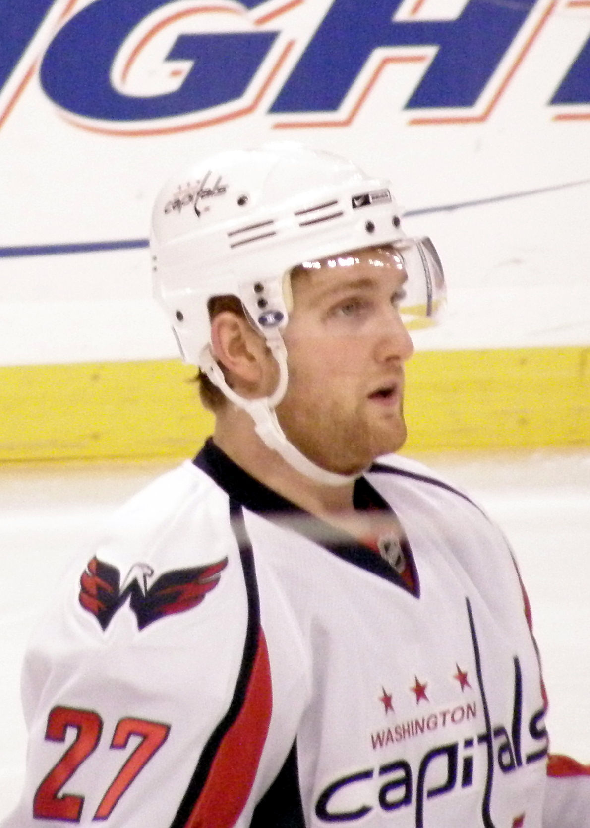 Karl Alzner (Washington Capitals)